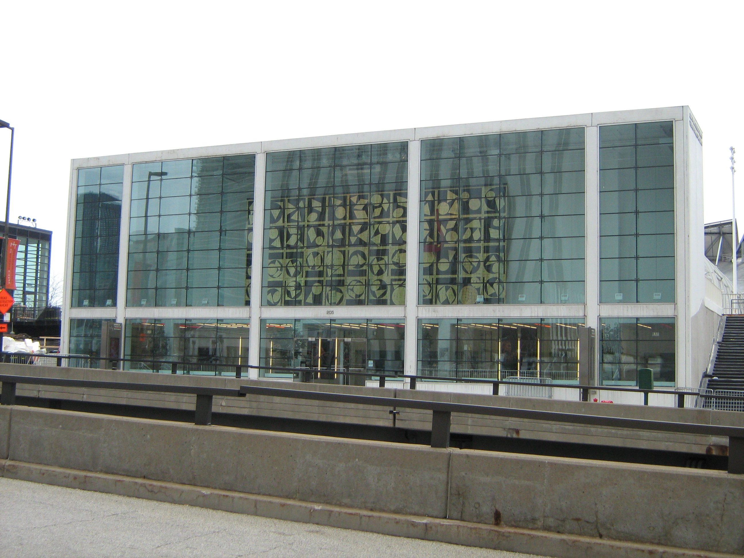 205 E Randolph St Chicago, IL 60601 (312) 629-8696